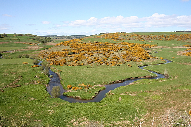 River Ythan. A magnificent meander of the River Ythan inside a meander of a glacial meltwater channel. Compare 1293136.